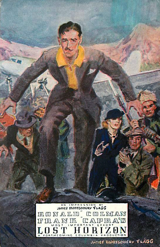 Postcard promotion for the 1937 film Lost Horizon. The front of the card has an illustration by James Montgomery Flagg and a pre-printed message from Ronald Colman, the film's star.